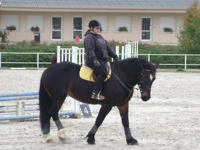 Olympe de Fontaine, Cob Normand mare